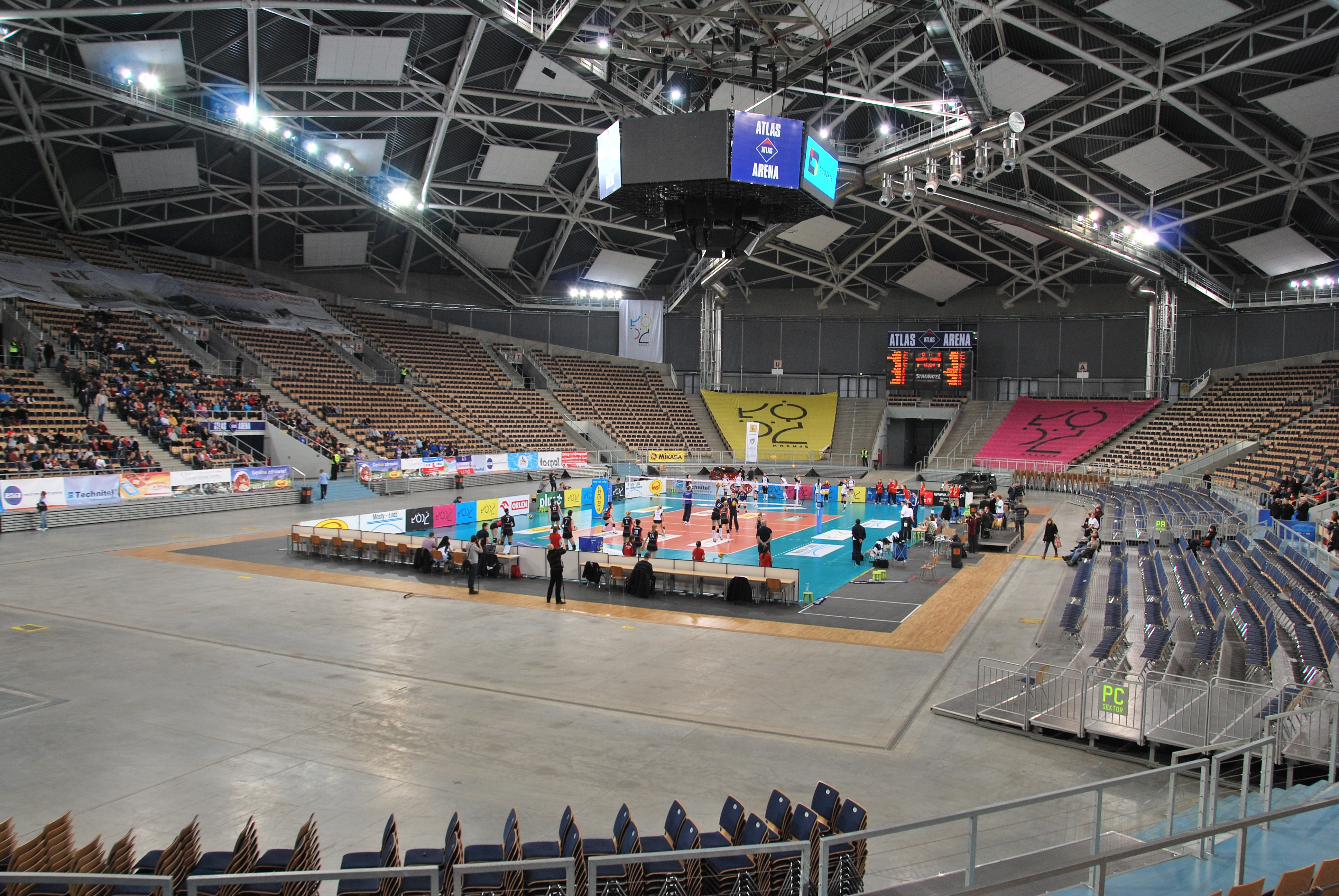 Atlas Arena during volleyball match